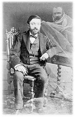 Image taken sometime in the 1860-'70s.